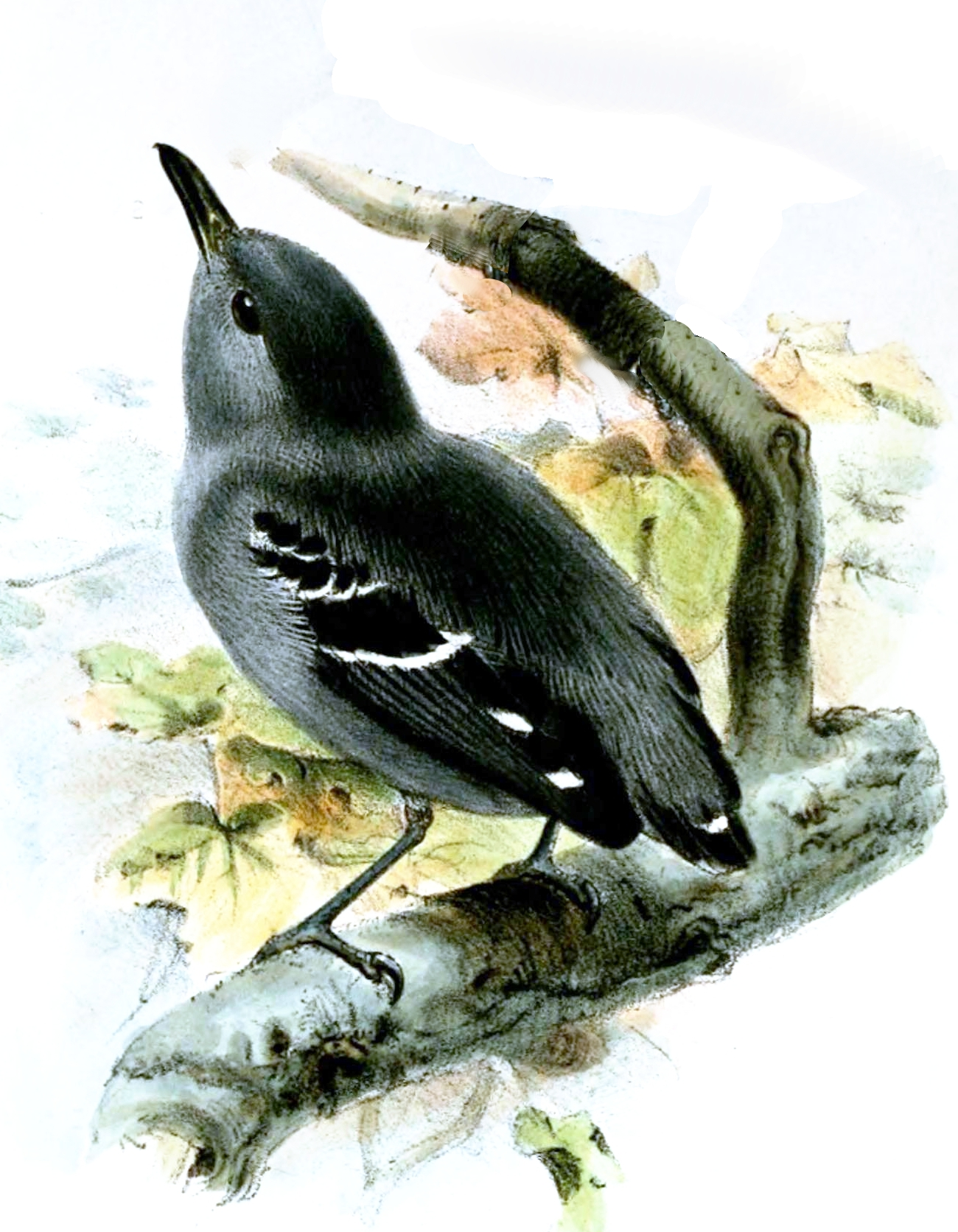 Adult male and Plain-throated Antwren